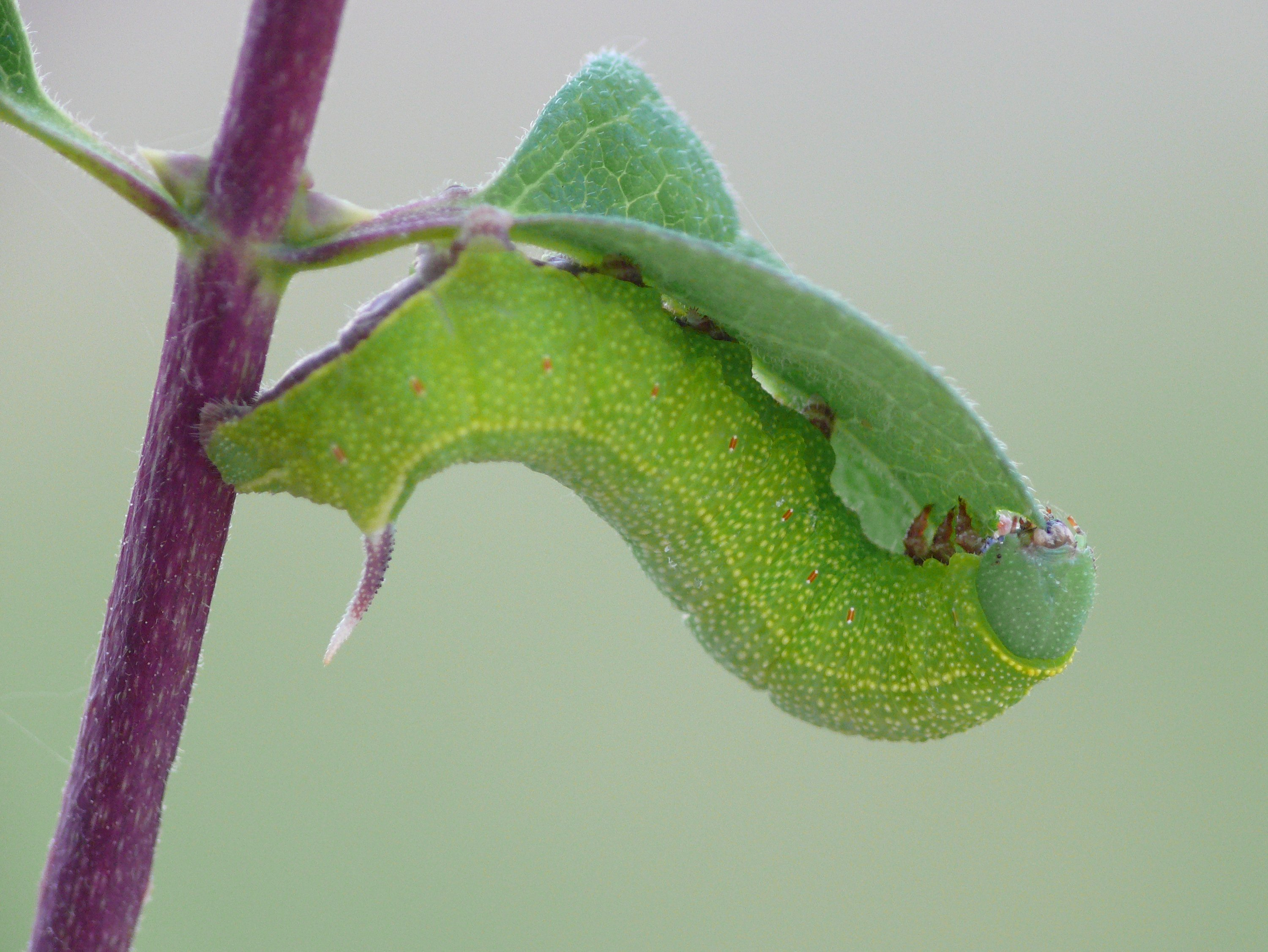 Caterpillar of the Broad-bordered Bee Hawk-moth (Hemaris fuciformis) in penultimate larval state (L5), urban hinterland of Munich, Germany